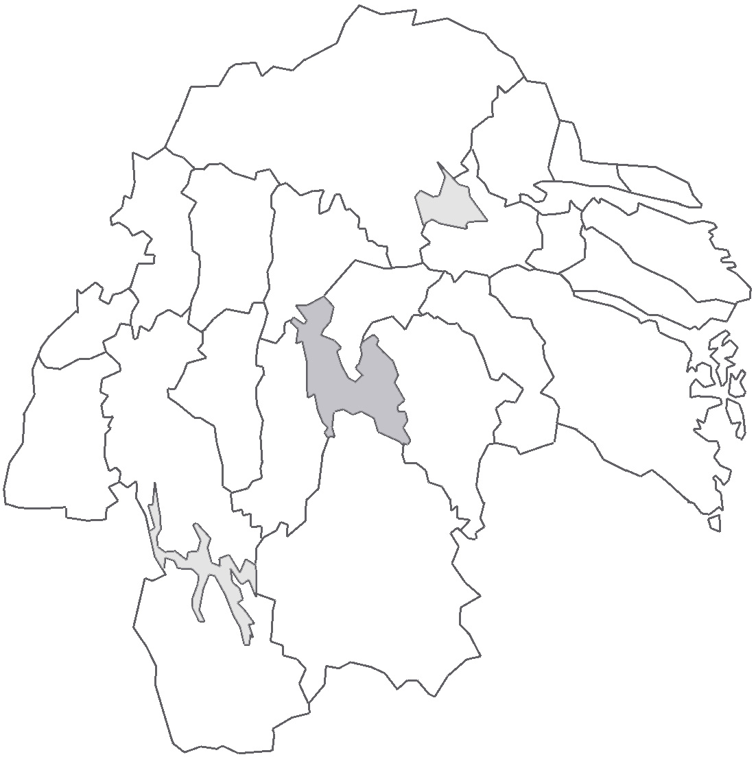 Map describing the location of Hanekind Hundred in Östergötland County, Sweden.